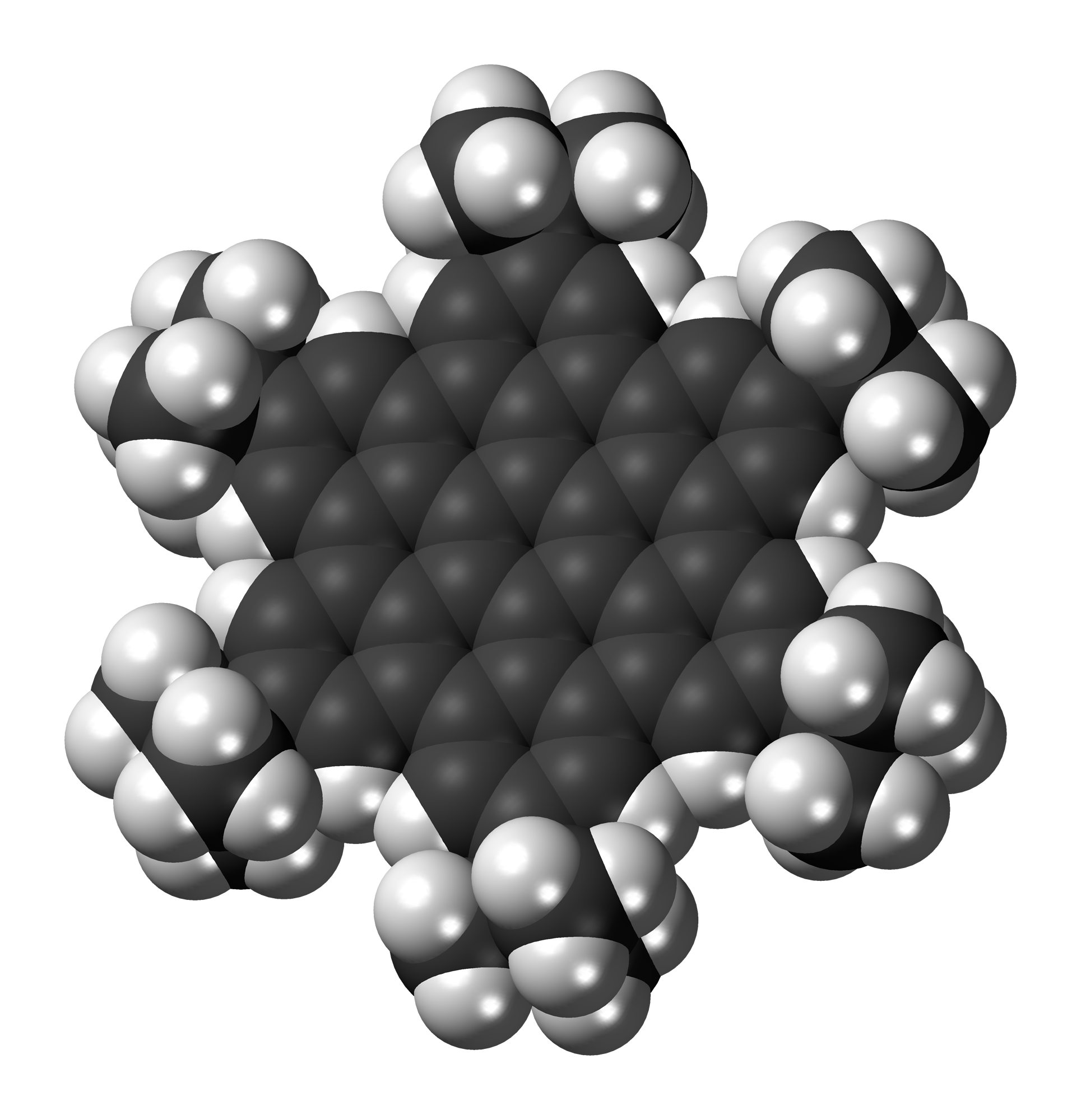 Space-filling model of the Hexa-peri-hexabenzocoronene molecule, a polycyclic aromatic hydrocarbon. Colour code: Carbon, C: black Hydrogen, H: white